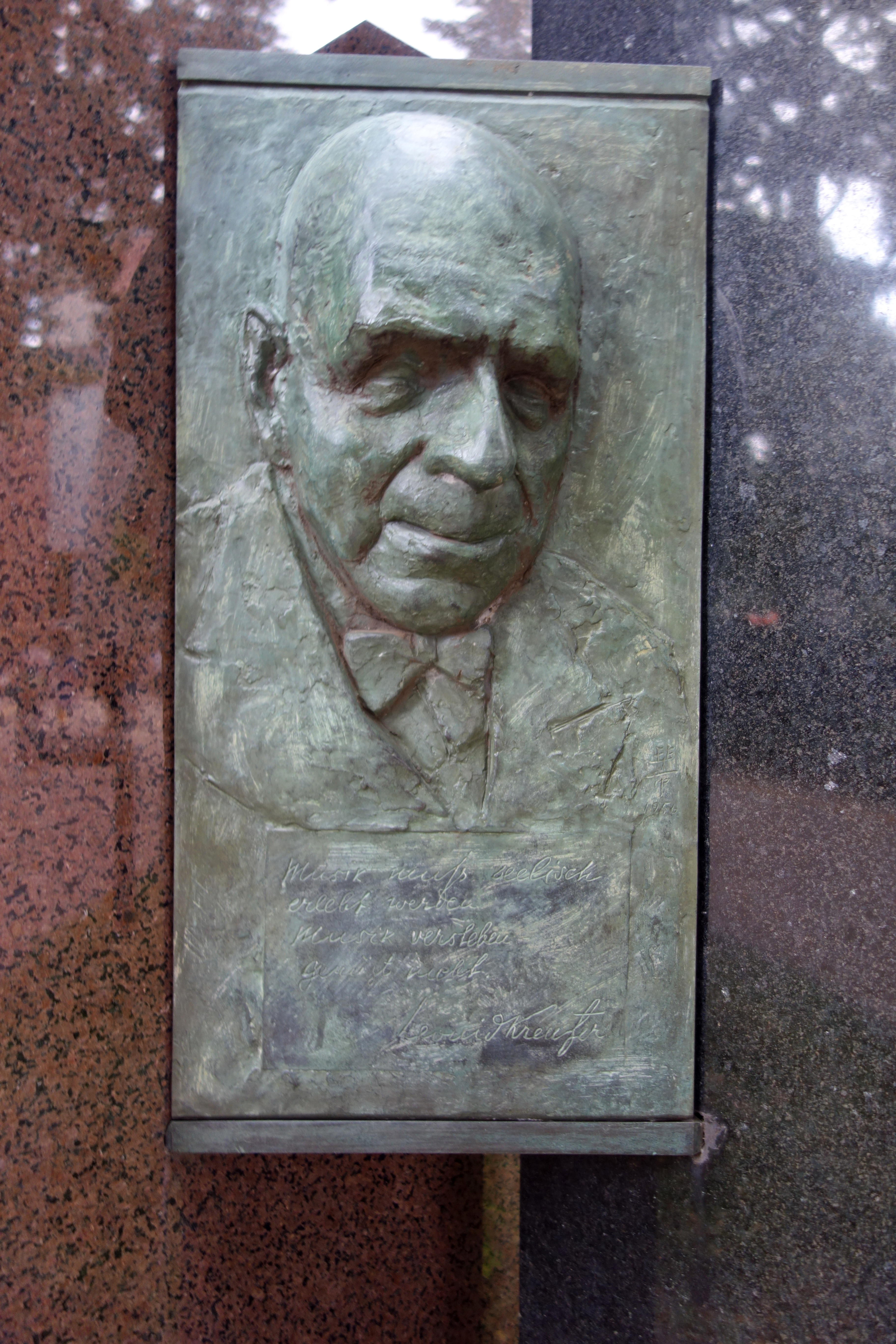 Memorial in the Tokyo University of the Arts campus, Ueno, Tokyo, Japan. This artwork is in the public domain because the artist died more than 70 years ago.